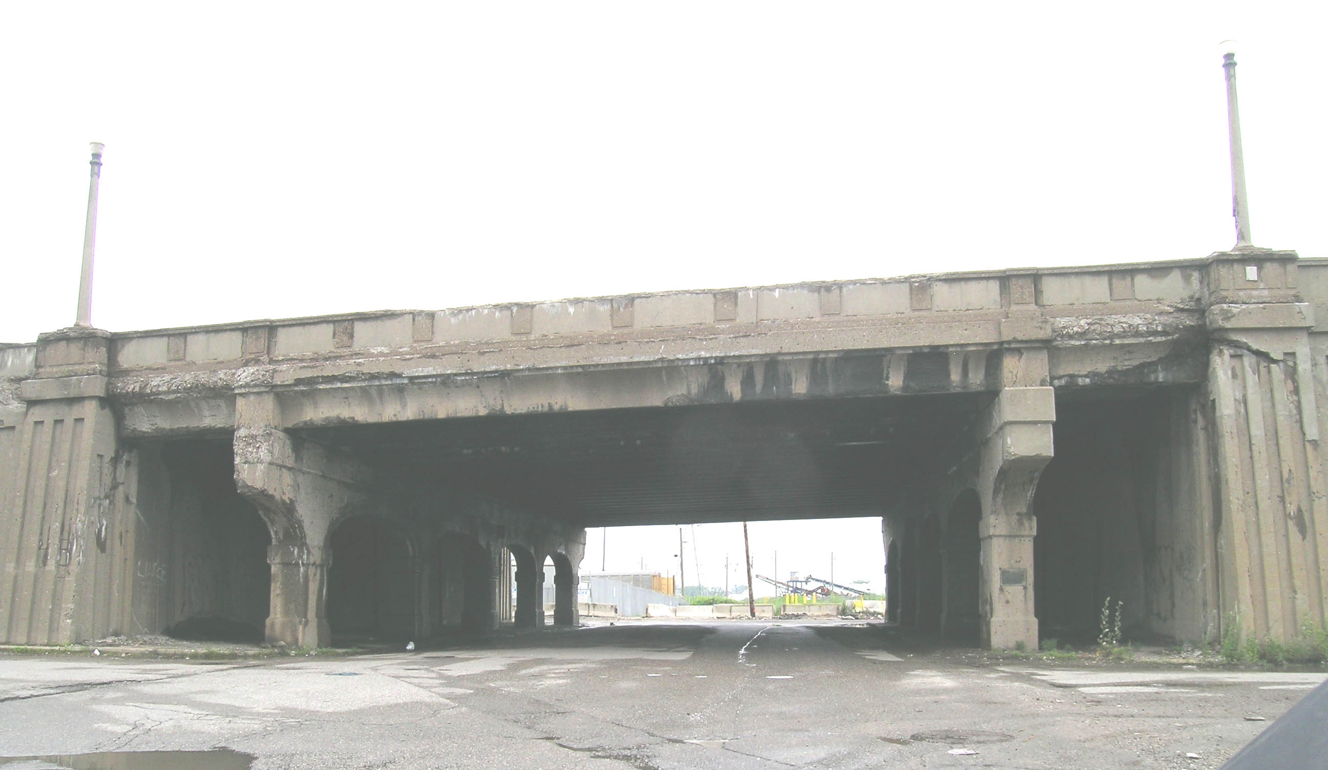 Forst Street bridge over Pleasant Street, Detroit MI